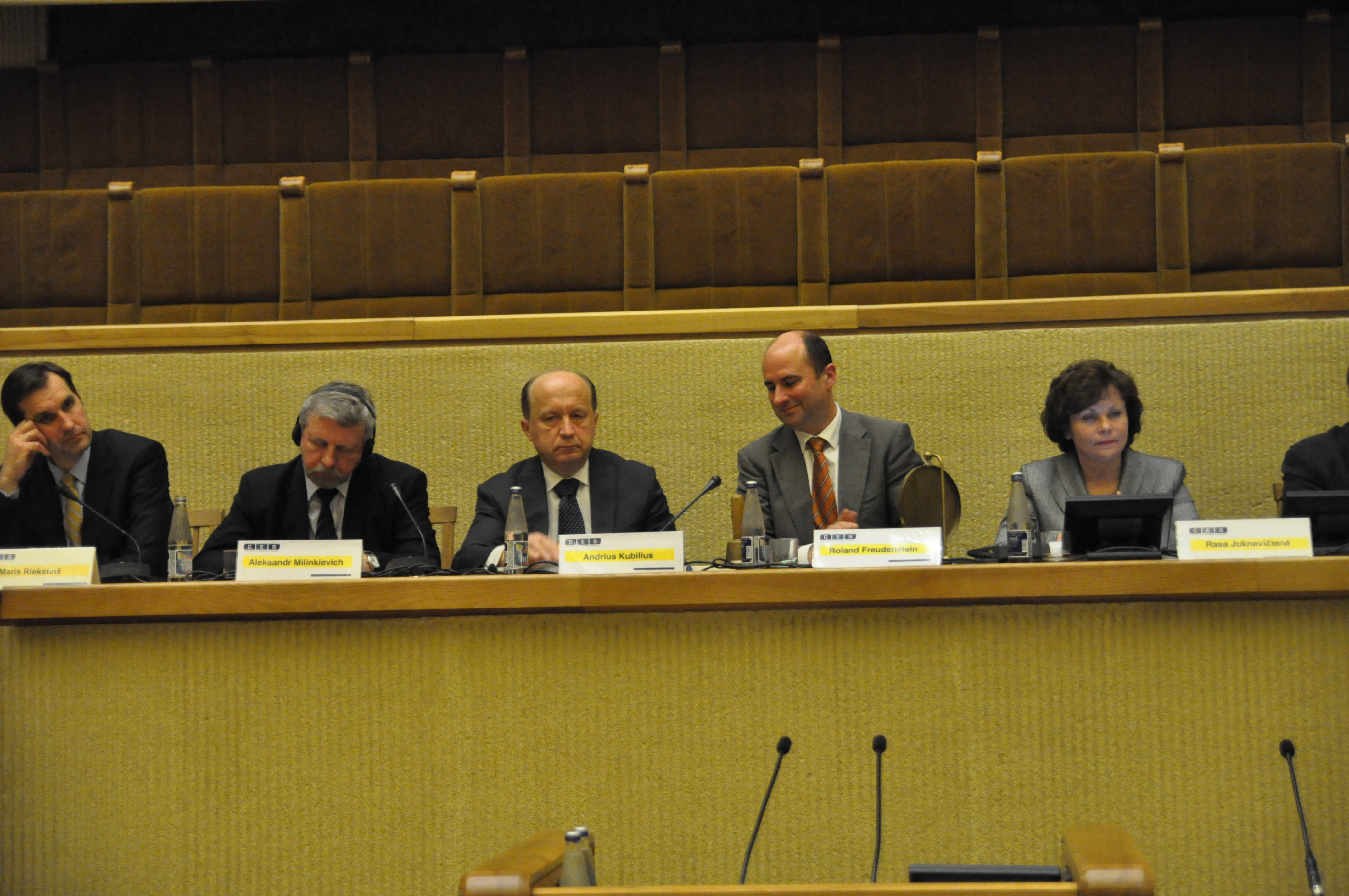 CES Seminar 'Baltic Freedom; The Next 20 Years": On the podium (left to right): Māris Riekstiņš, Alexander Milinkevich, Andrus Kubilius, Roland Freudenstein, Rasa Juknevičienė, ( Mart Laar and Alf Svensson).